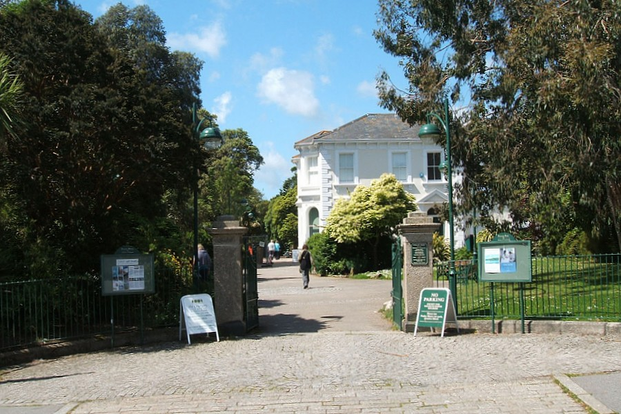 Penlee House - Penzance - Penwith - Cornwall - UK